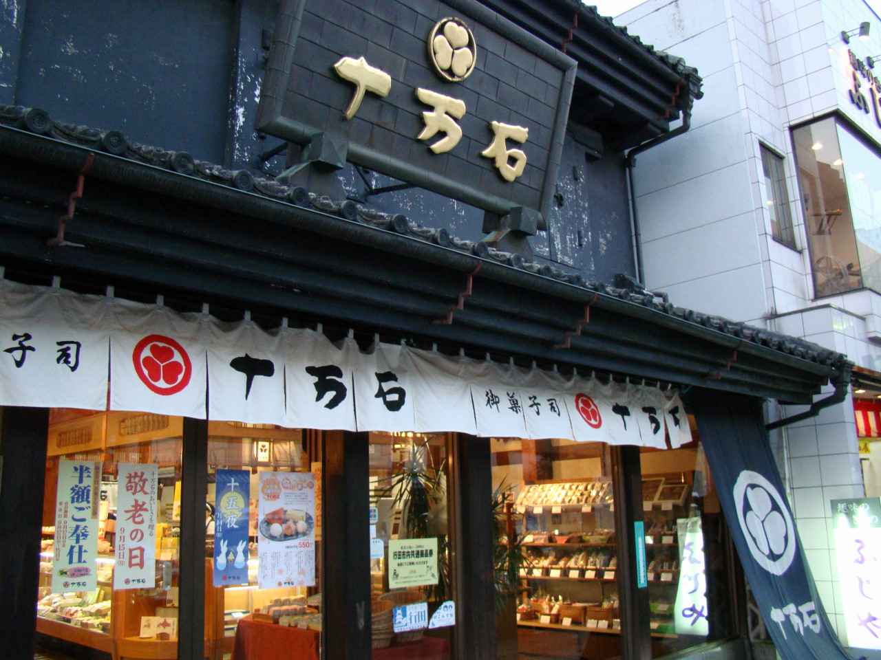 Jumangoku-Fukusaya main shop Saitama Japan